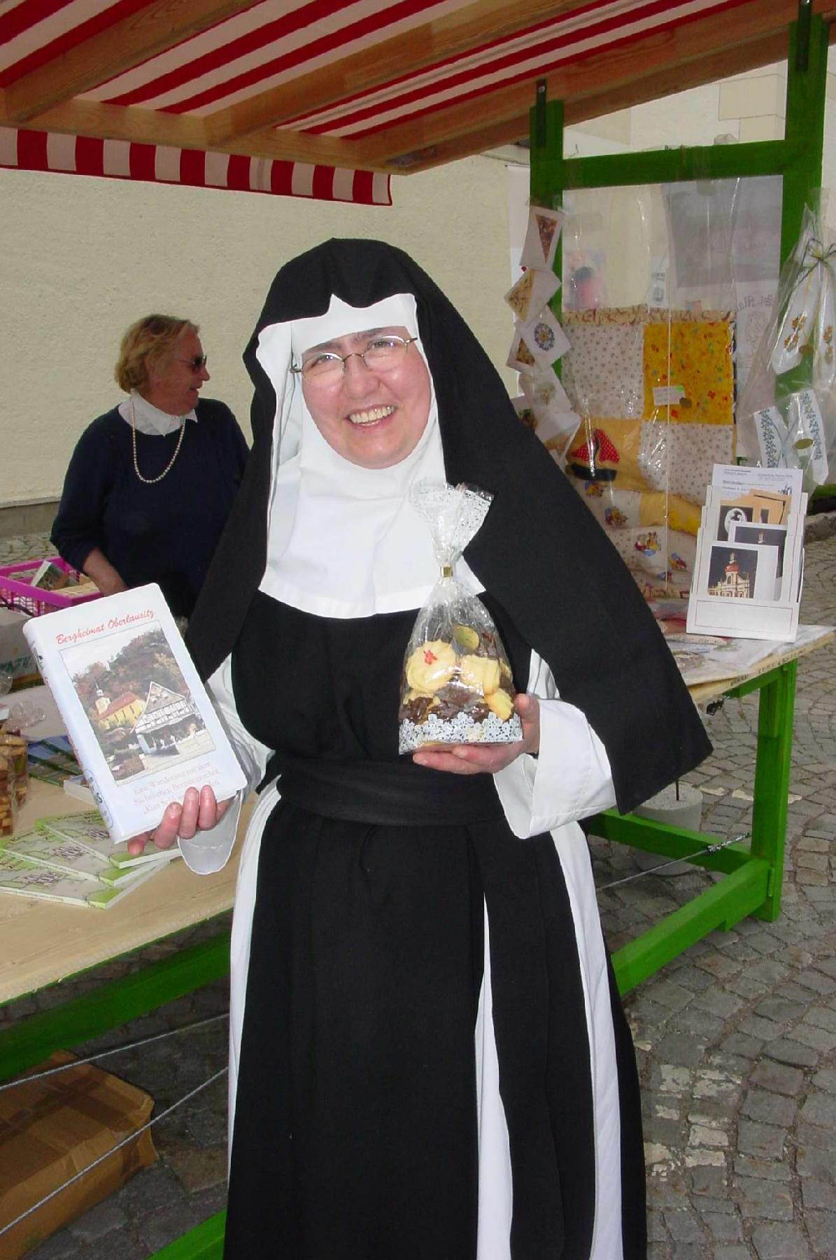 A Cistercian nun presents goods at an annual sale of abbeys' products.